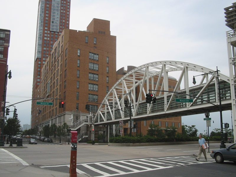 I took this picture. This is a view of the Stuyvesant building from the corner of West and Chambers Streets. The area is usually much busier than this, but I took the picture during the summer (of 2004) when school is off session. The Tribeca Bridge, which is used to enter and exit the building, is in the foreground. Note that the tall tower in the background is not part of the Stuyvesant building; this is a recently completed construction project. Category:Stuyvesant High School